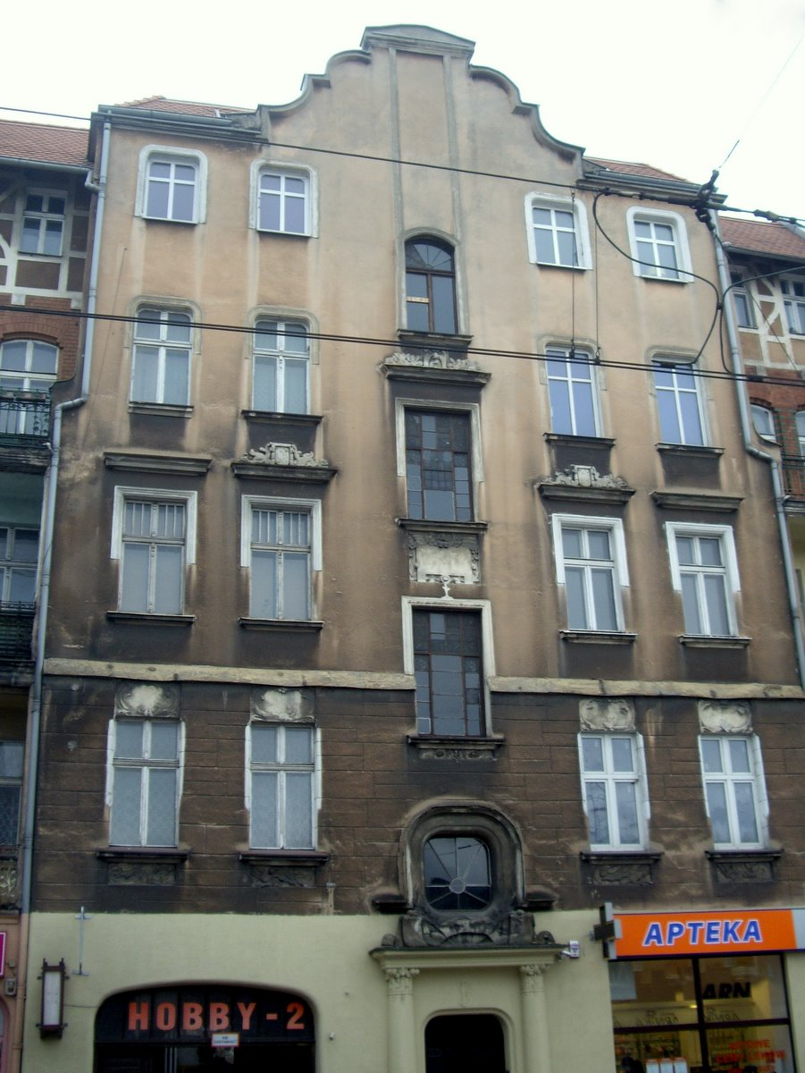 Dabrowskiego 86, Poznan, arch. Paul Pitt, plasterer Boleslaw Richelieu (1904)